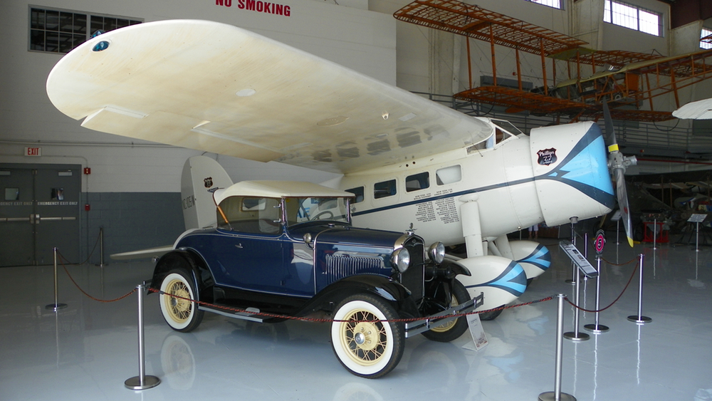 Fantasy of Flight's Lockheed Vega